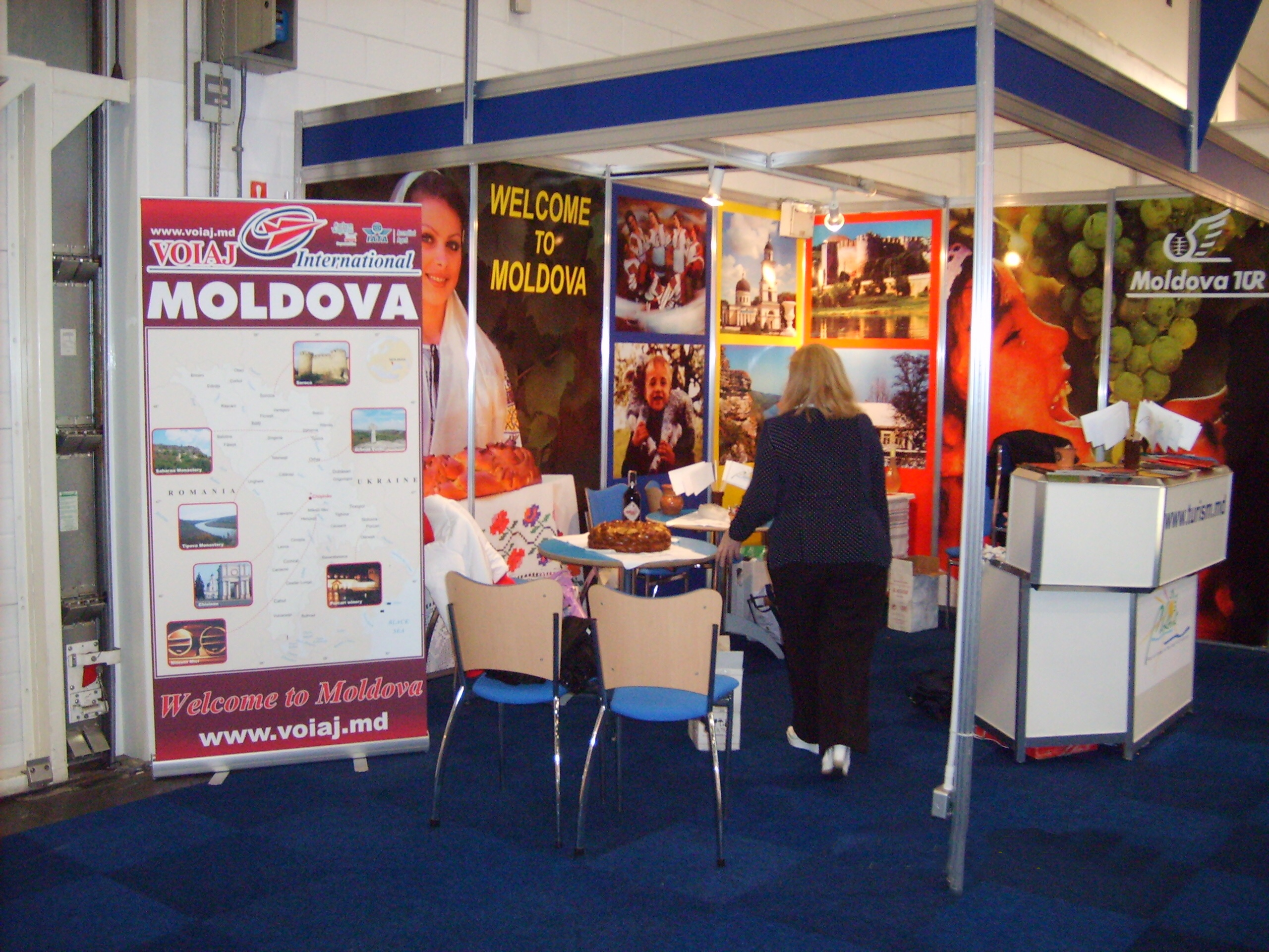 Voiaj Moldova at the Expo in London, UK, 2007